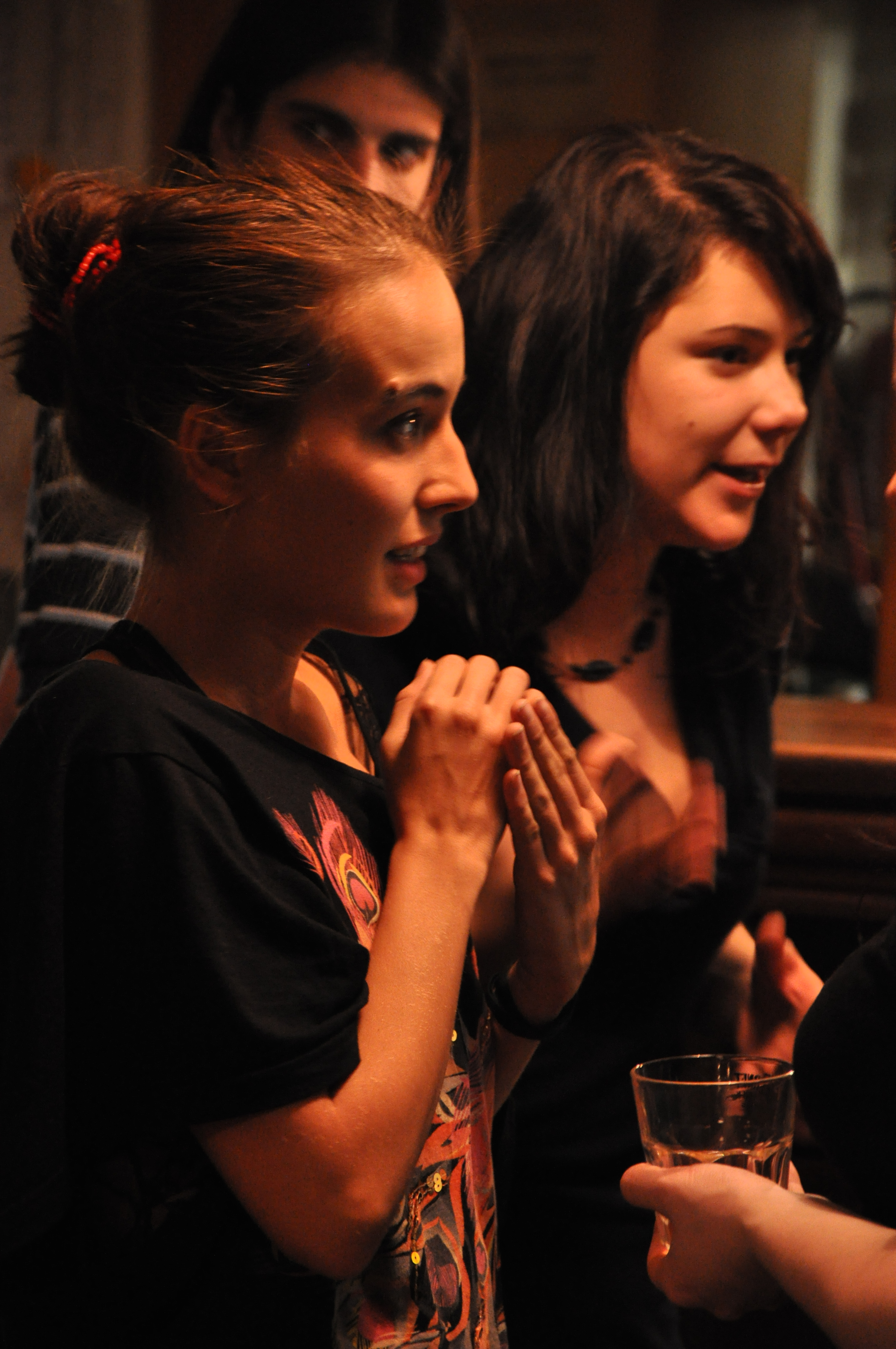 Czech actresses from the left: Tereza Voříšková and Ivana Korolová